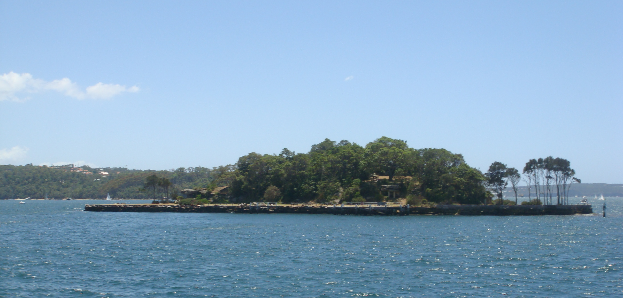 Clarke Island, Sydney.